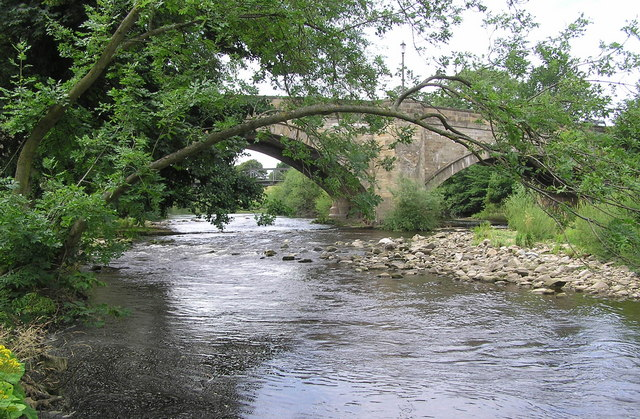 The old Catterick Bridge on the A1 road.